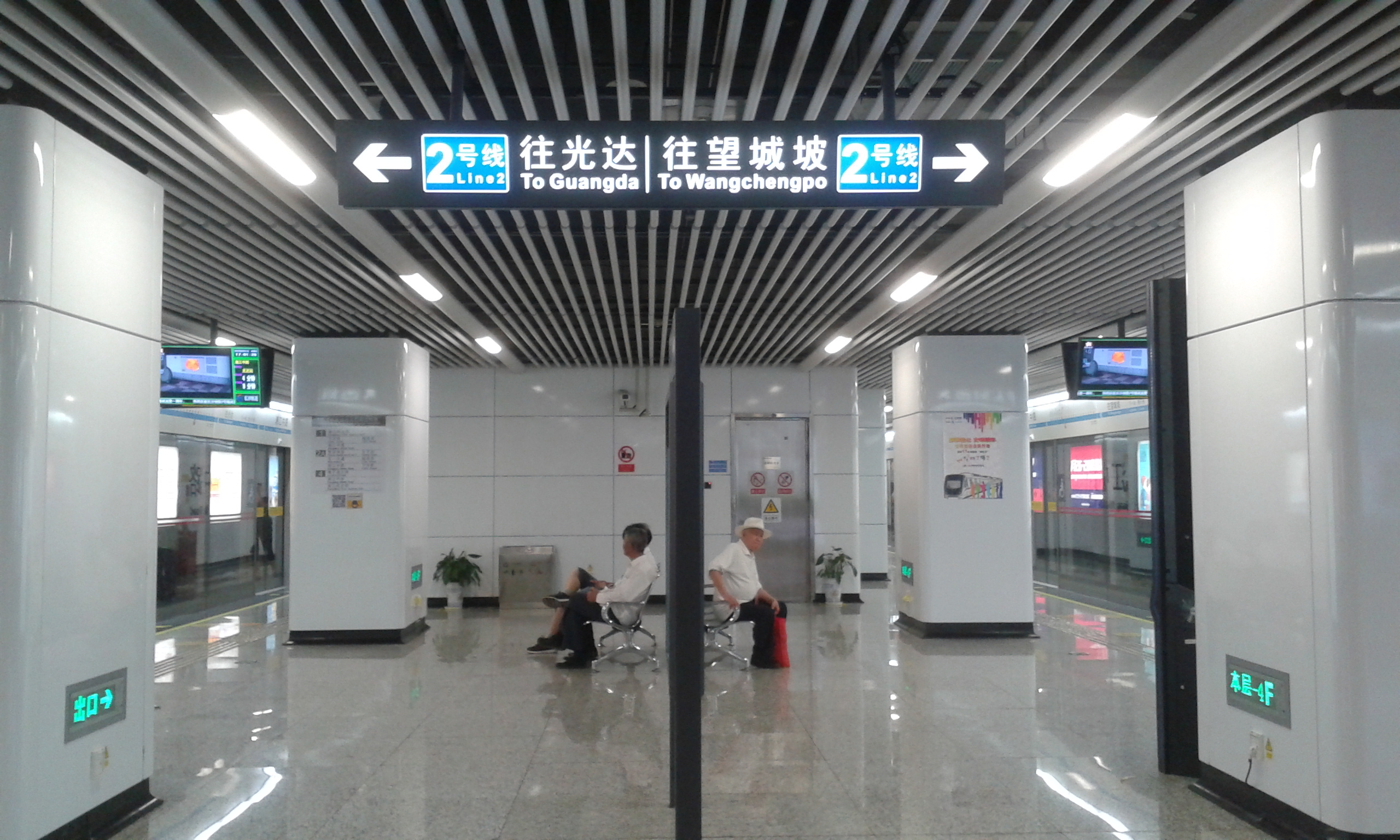 Platform of Xiangjiang Middle Road Station, Changsha Metro